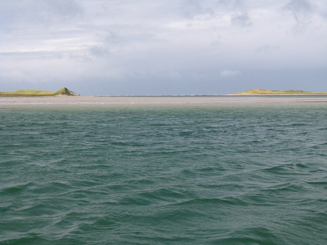 Beul an Toim Channel between Baleshare and Benbecula facing west .